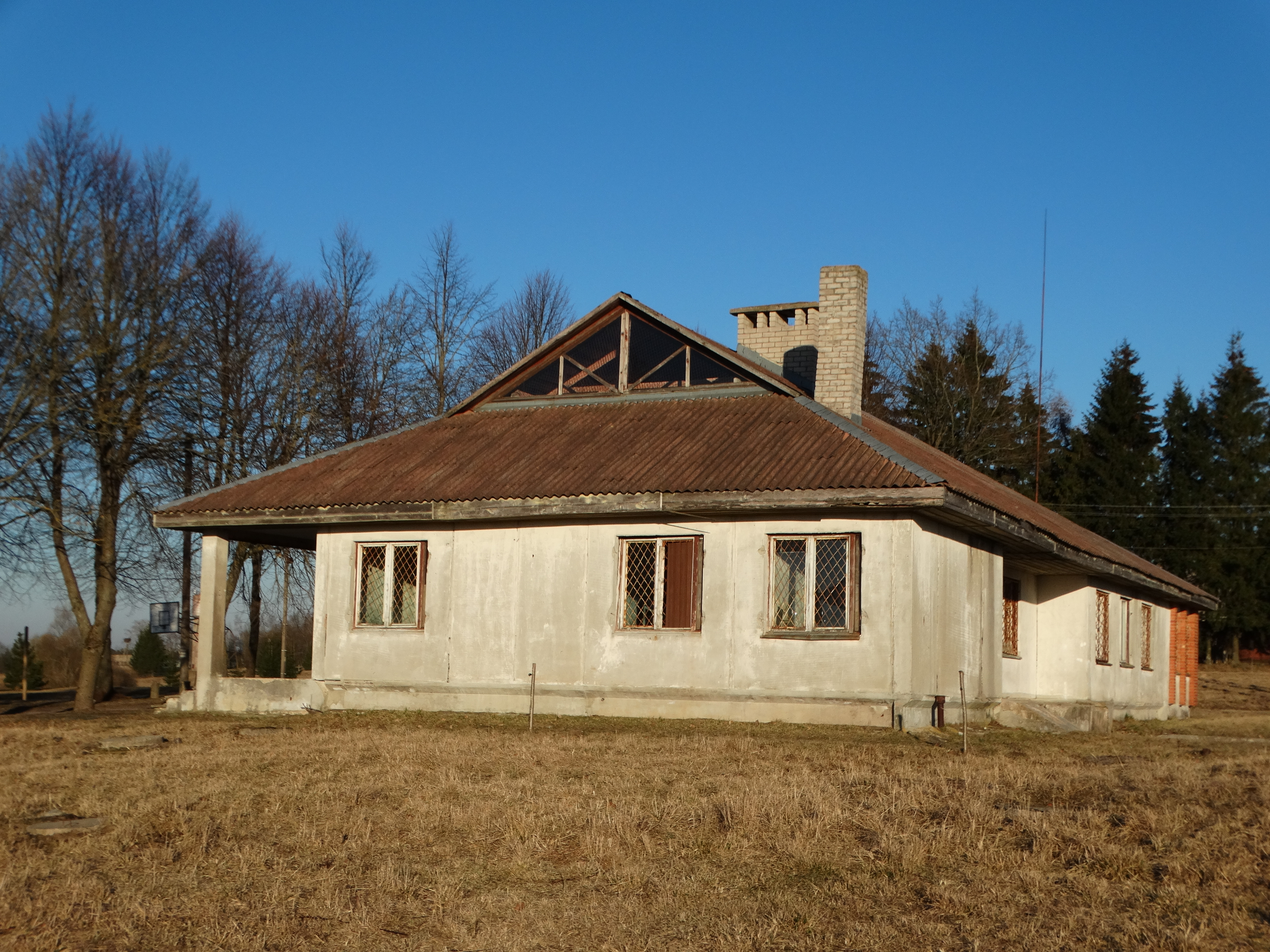 Former school, Varputėnai, Šiauliai district, Lithuania